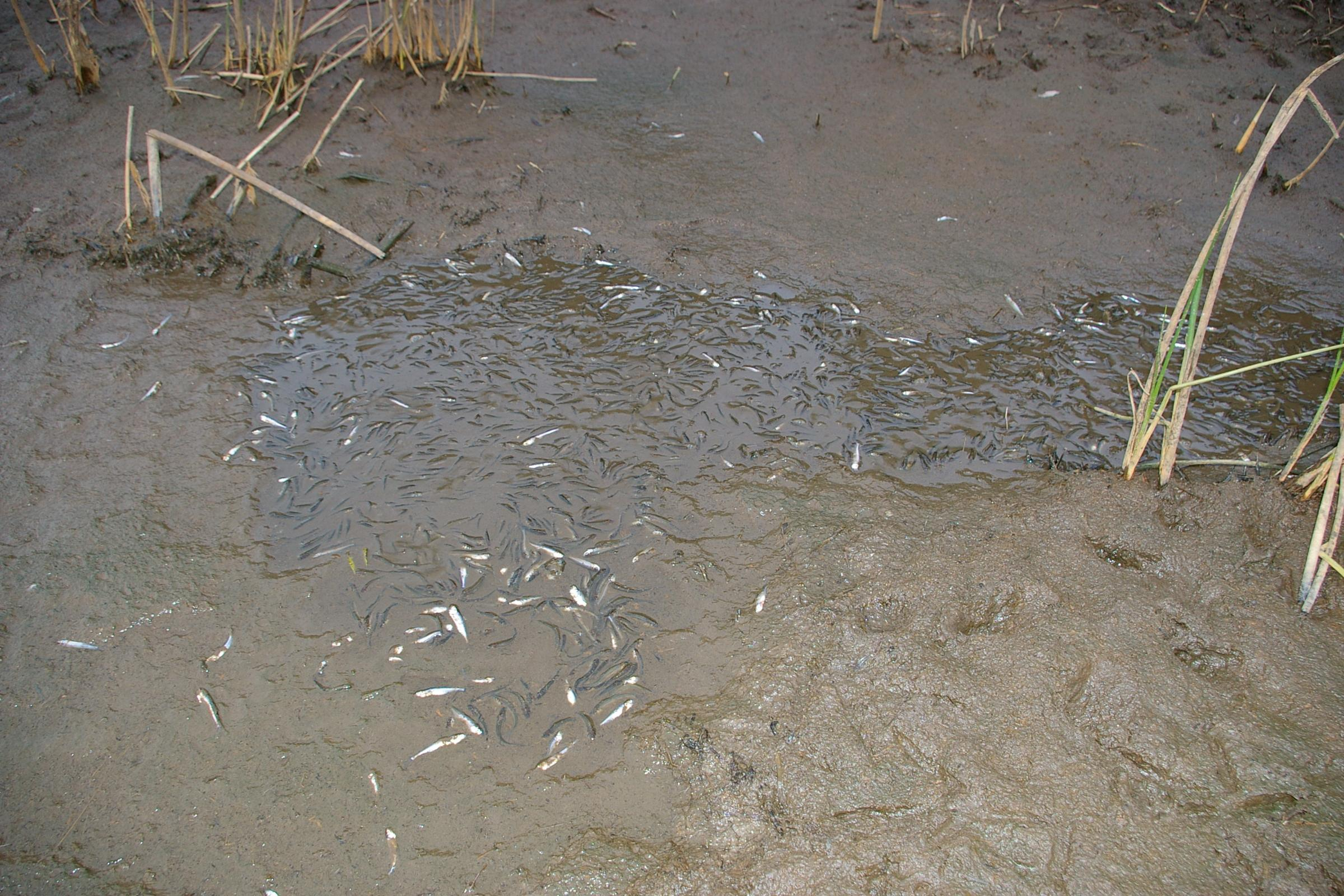 Shoal of young specimens of Leucaspius delineatus, caught in a drying-up pool.